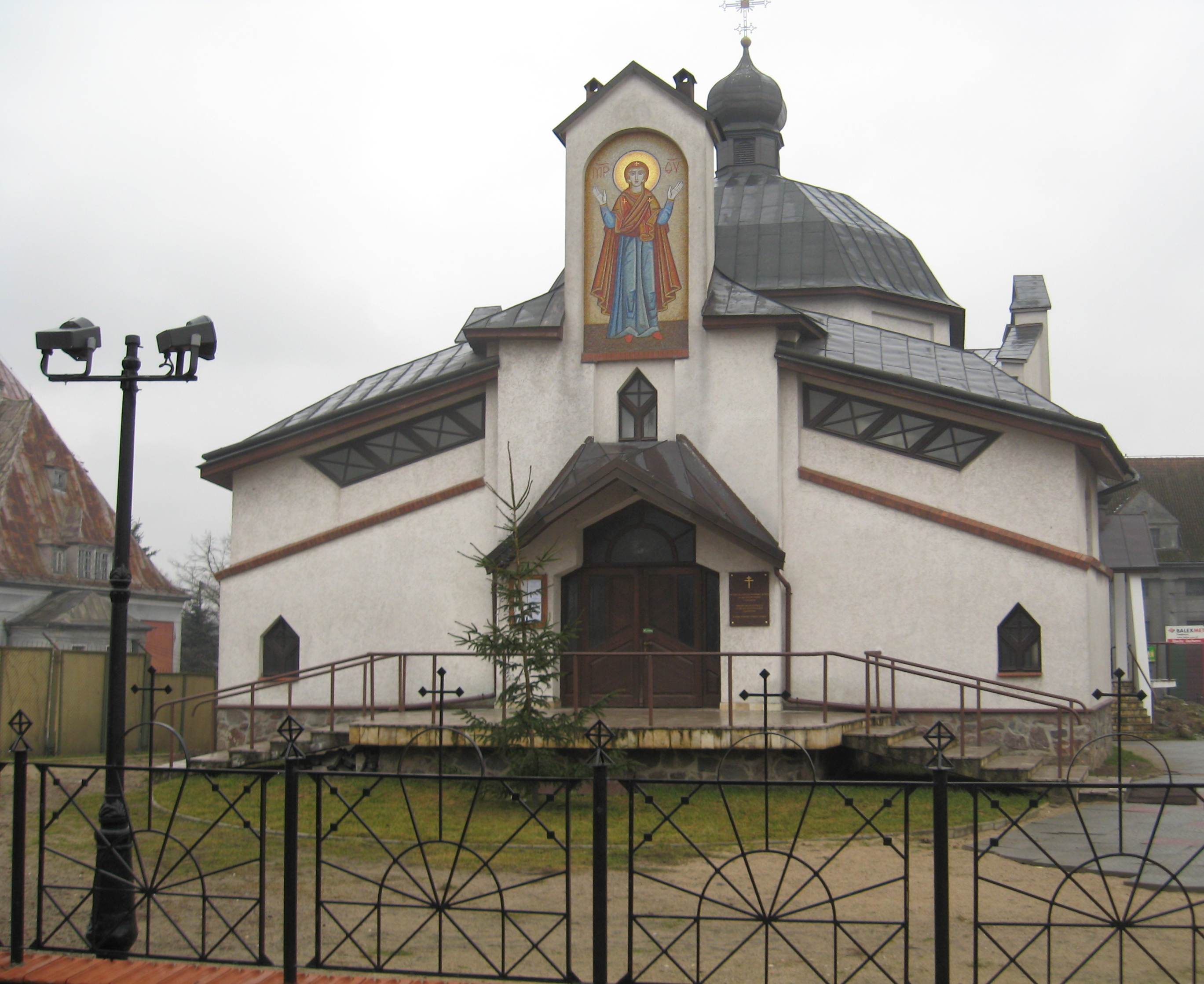 Church of St. Basil the Great